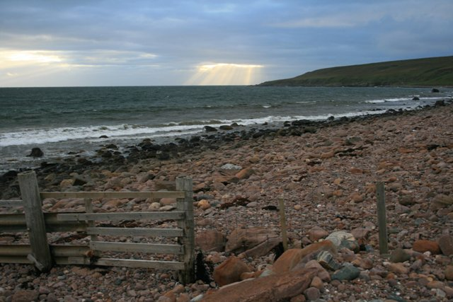 The coast below Big Sand is in fact a stony beach; the broady sandy beach and dunes lie to the south